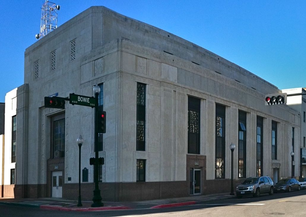 The old First National Bank Building of Beaumont.